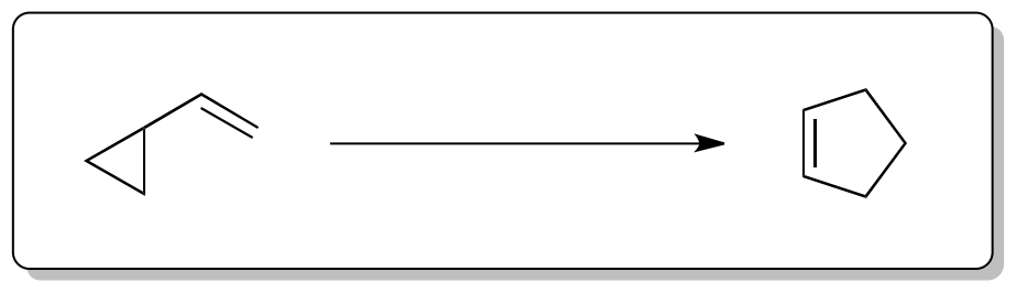 VinylcyclopropaneRearrangement Header 1